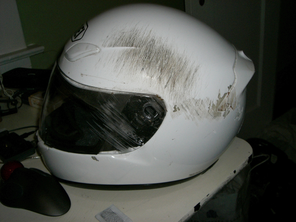 A motorcycle helmet that has been involved in an accident